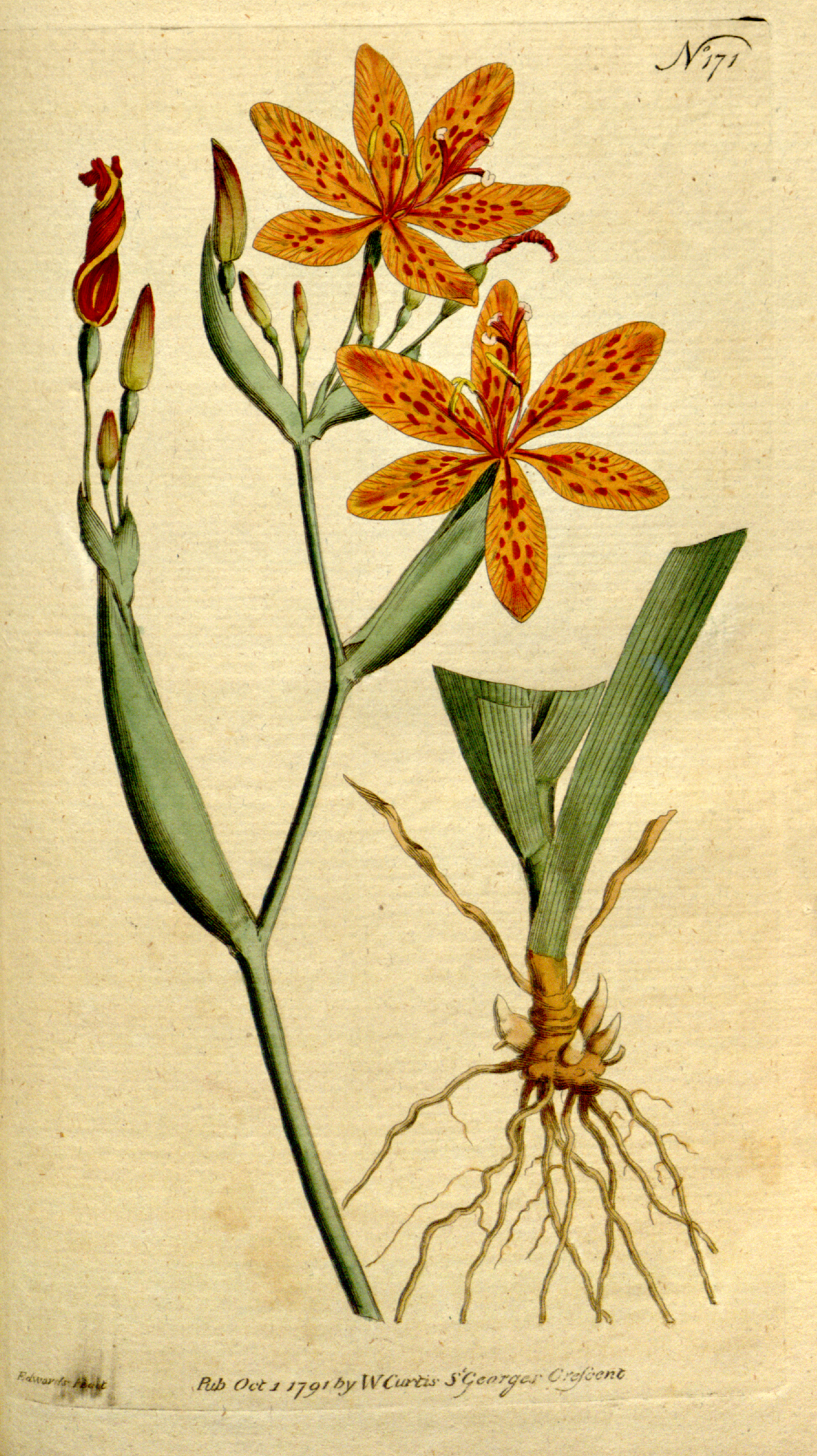 Iris domestica (L.) Goldblatt & Mabb. (as Ixia chinensis L.). This is a plate from The Botanical Magazine, Volume 5.